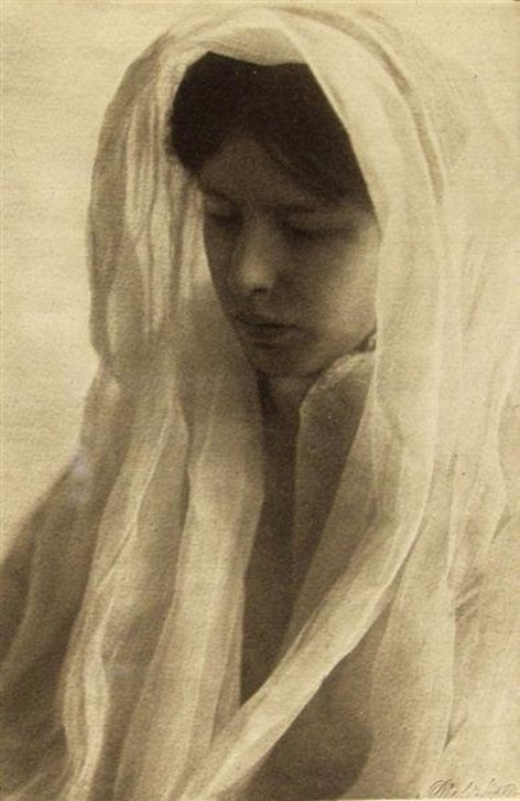 Head study, Photogravure